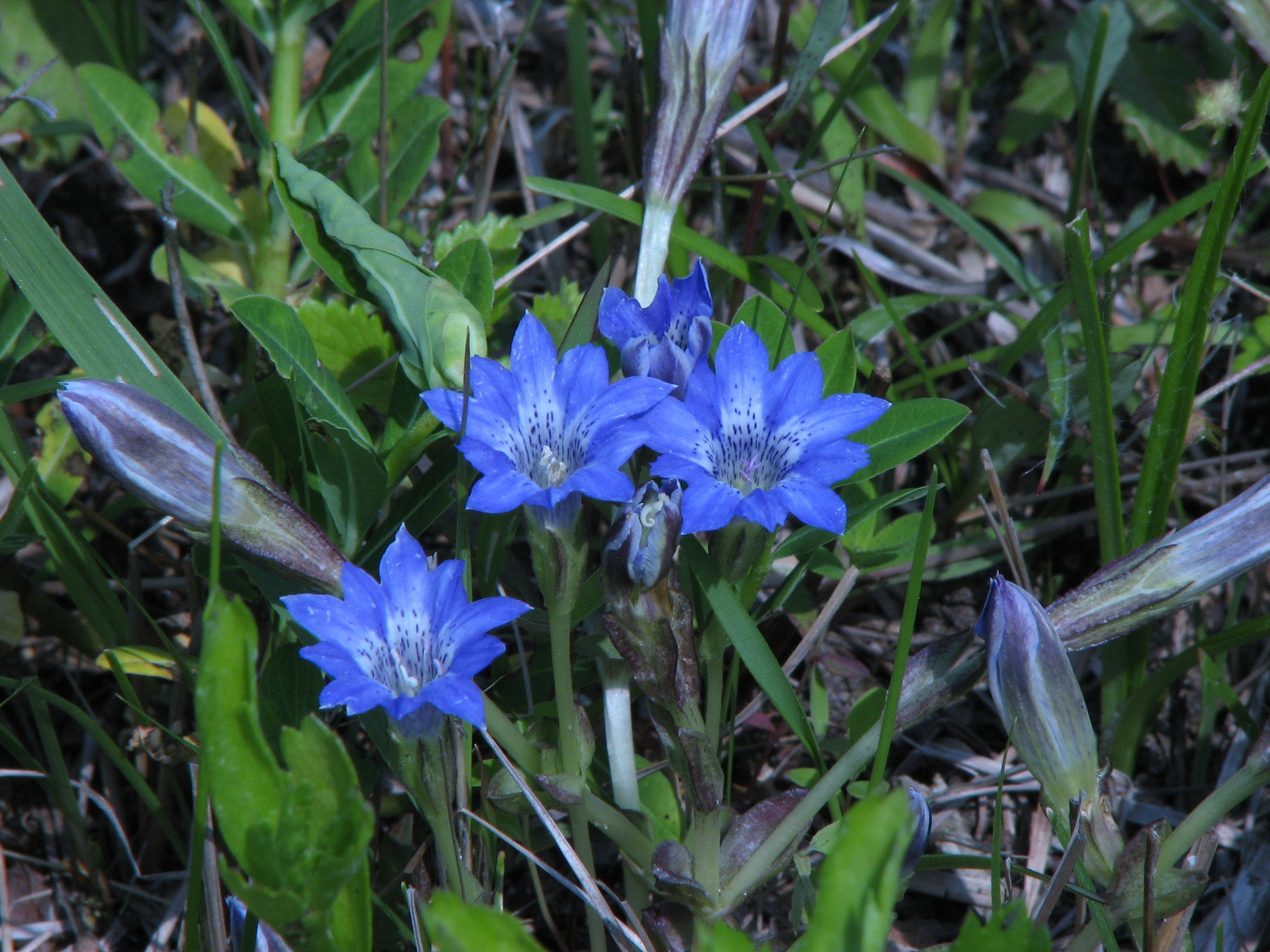 Flowering of Gentiana thunbergii at Naruto-Togane carnivorous plant colony(成東・東金食虫植物群落のハルリンドウ)